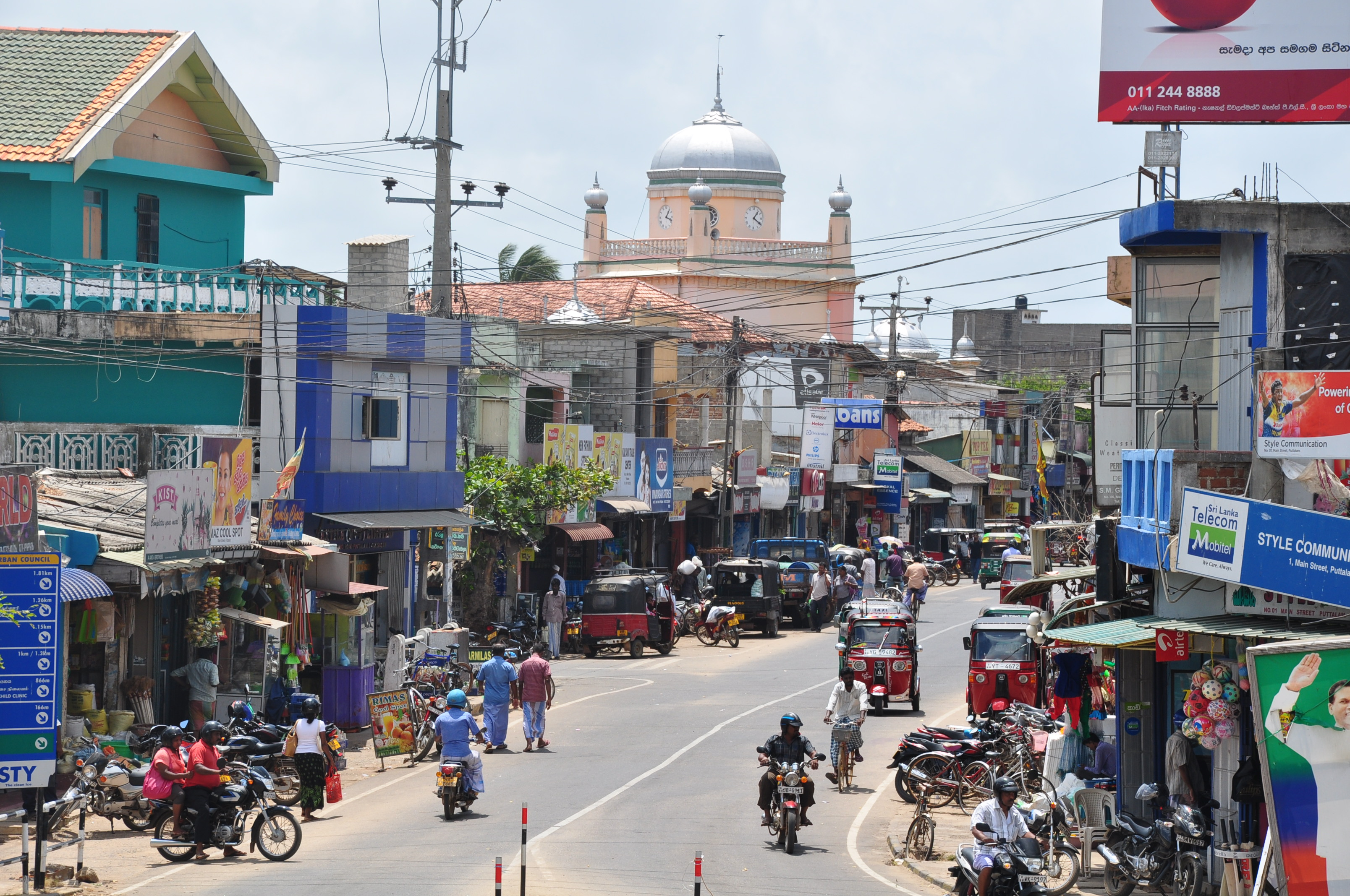 View into Mannar Road, Puttalam, Sri Lanka (on Bing/maps called Eluwakkulama Road).